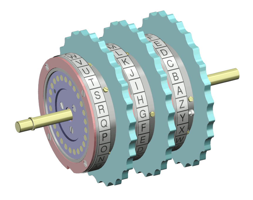 Illustration of rotors in an Enigma machine.